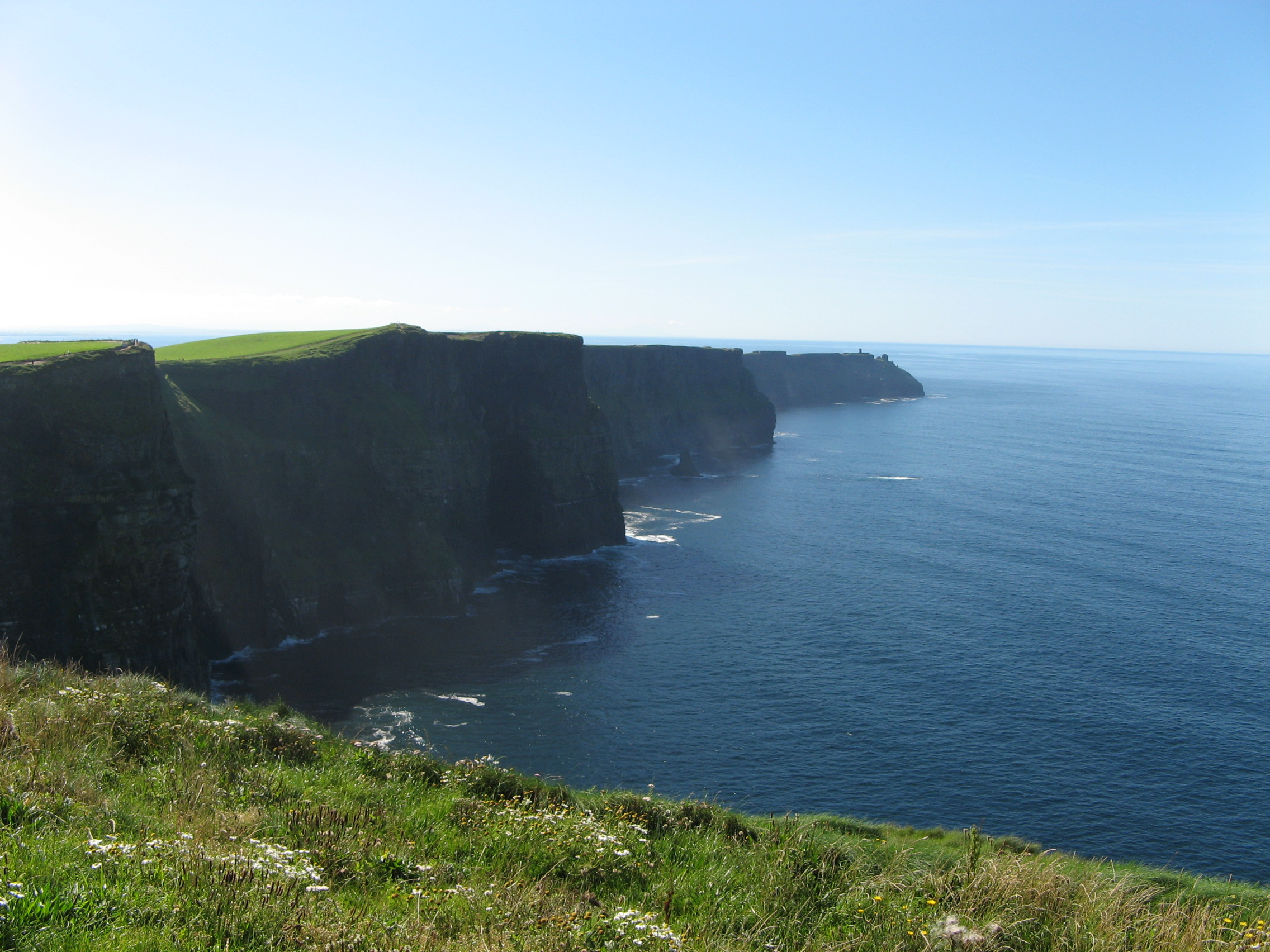 Cliffs of Moher